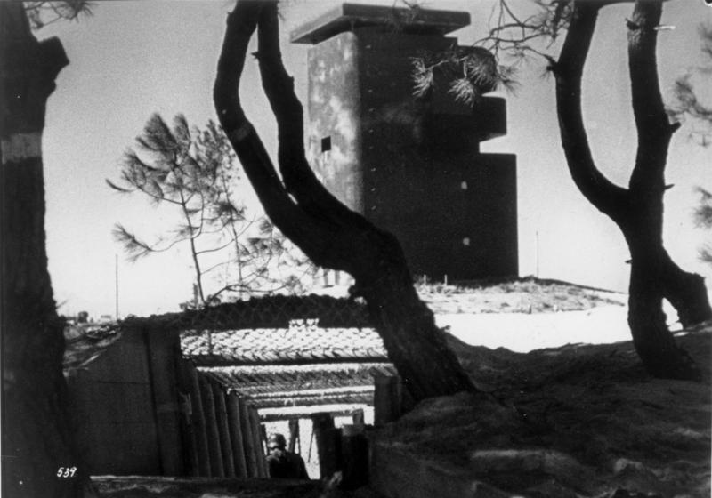 Atlantik - Wall 1944 Information added by Wikimedia users.M.K.B. Barbara, Ba 22 (S 487)